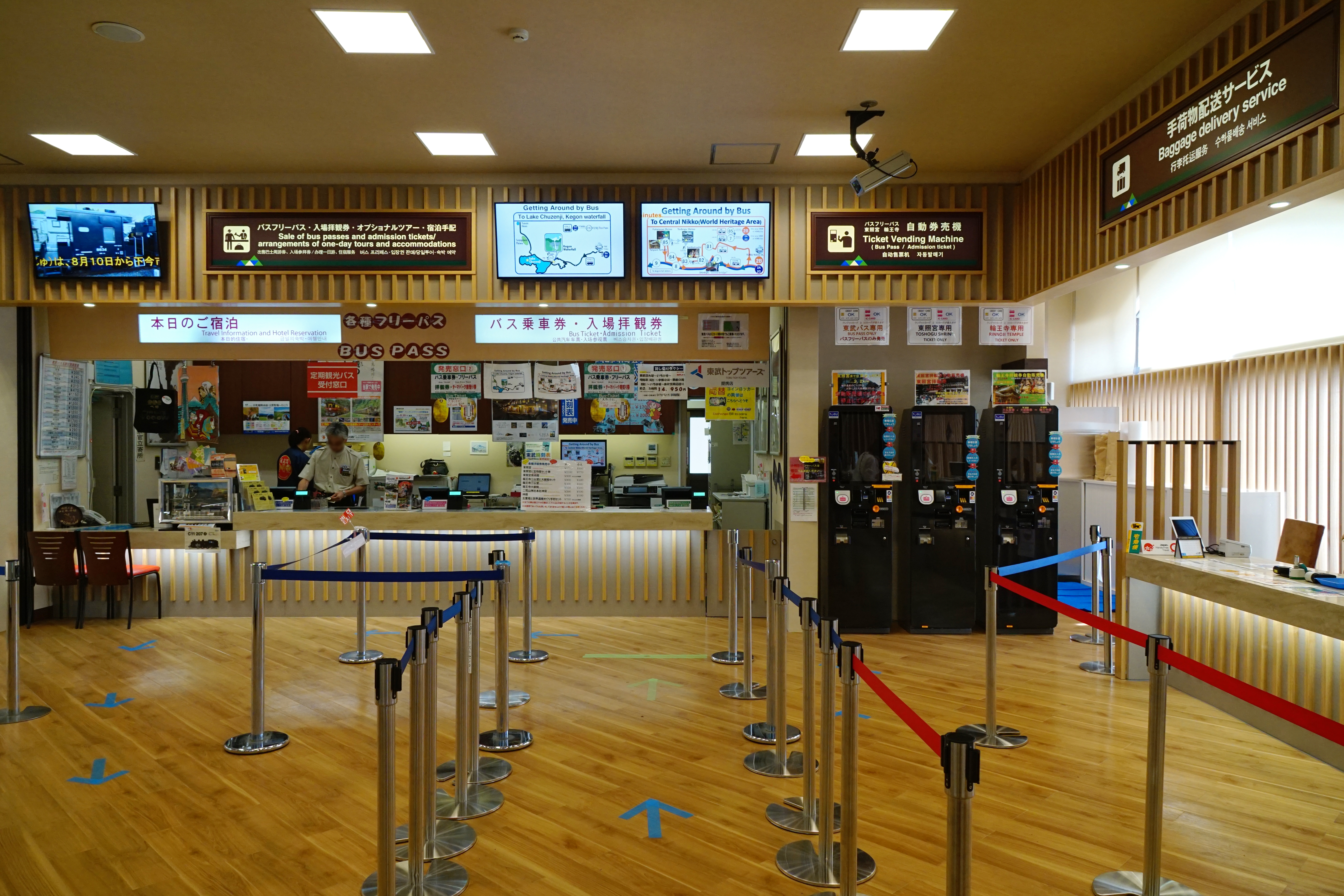 Tōbu Nikkō Station in Nikko, Tochigi prefecture, Japan